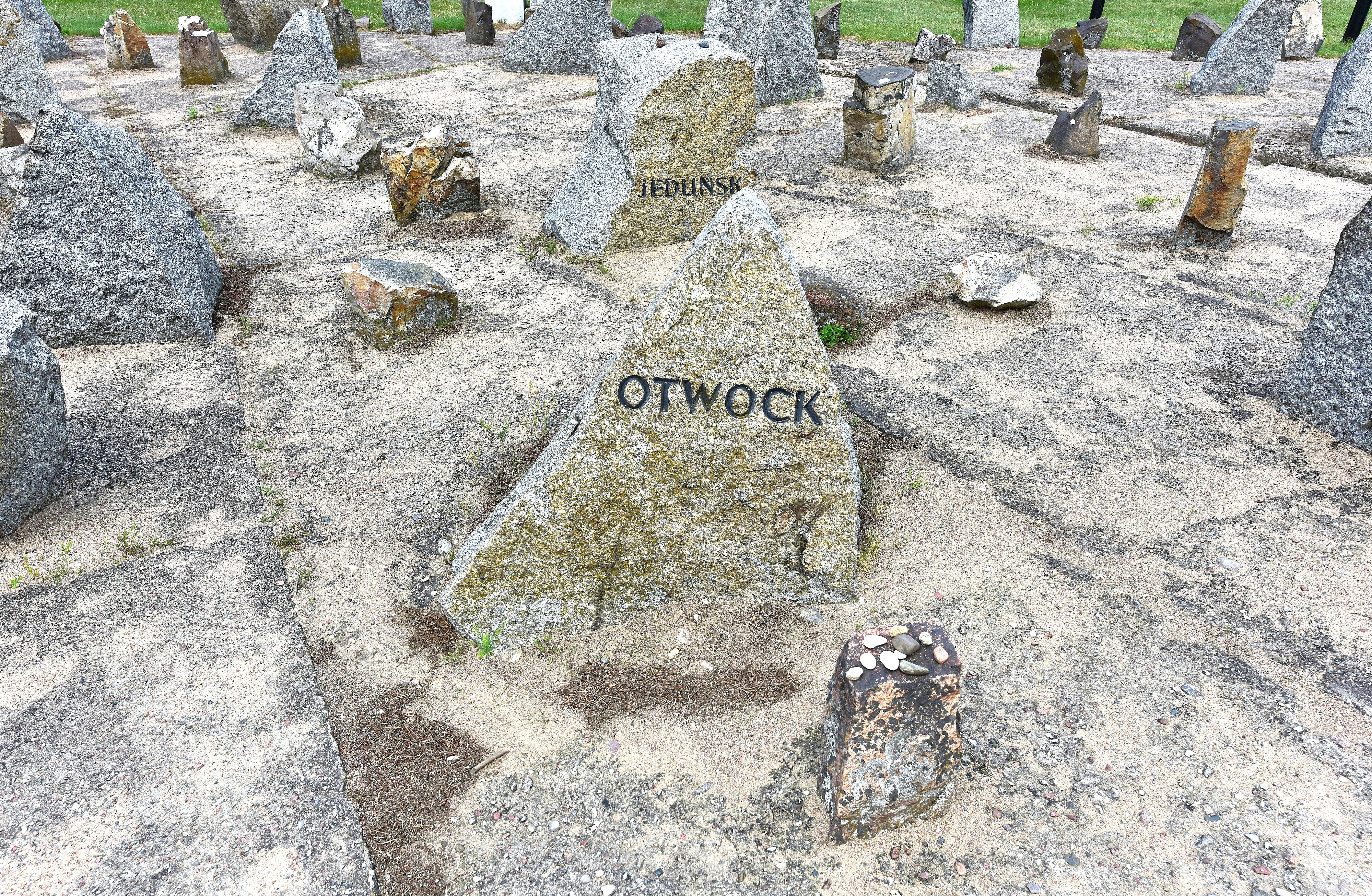 Treblinka death camp memorial. A stone commemorating the murdered Jews from Otwock